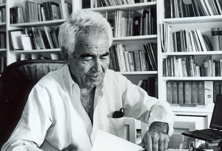 Alain Bernheim (born in Paris in 1931), pianist and masonic researcher, in 2006.